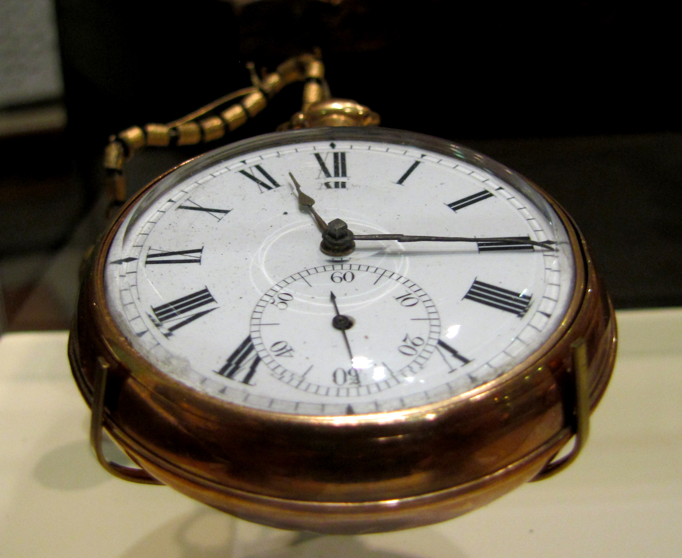 Pocket watch belonging to Senator Hugh Lawson White at the Center for East Tennessee History in Knoxville, Tennessee, USA.